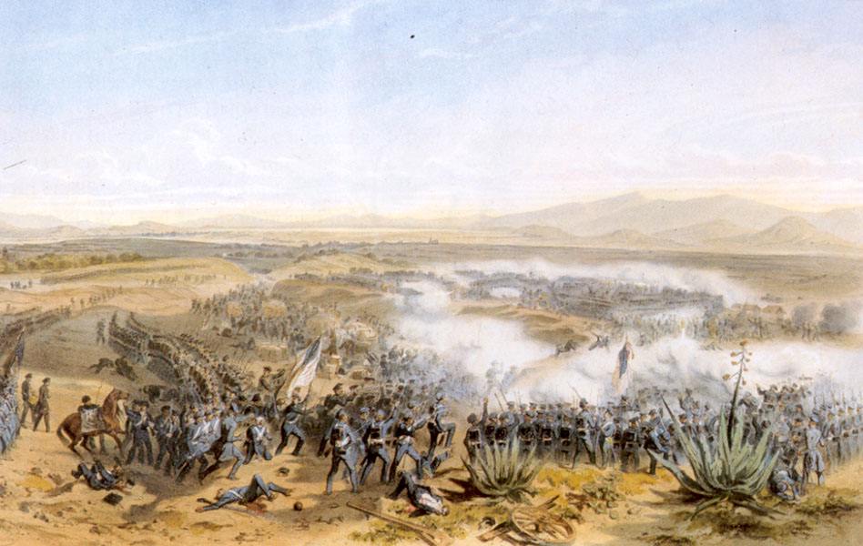 Battle of Contreras during the Mexican-American War, painting by Carl Nebel.